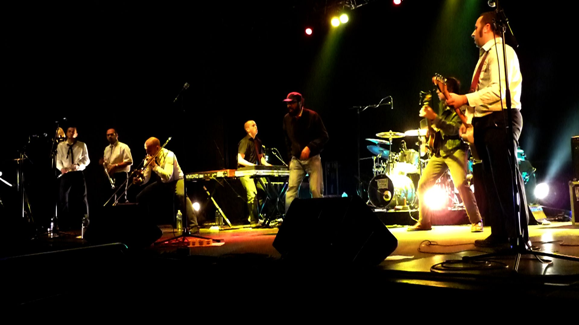 Concert of Two Tone Club, October 17th 2008 à Montbéliard (France).